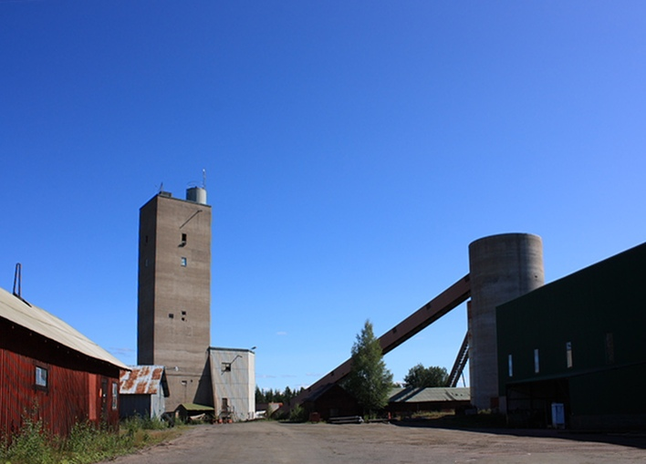 The mine in Yxsjöberg, Sweden